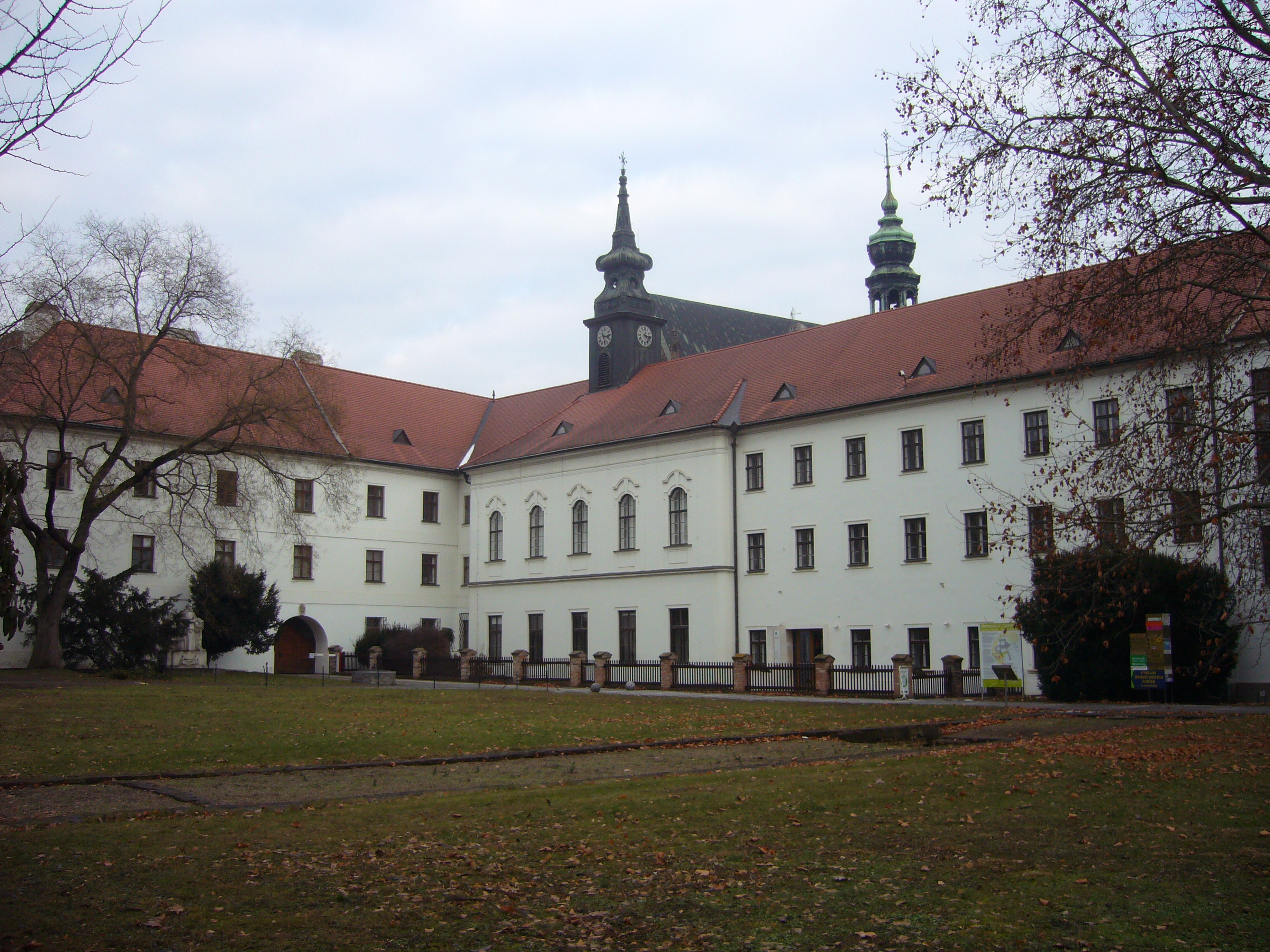 Garden with Mendel´s statue in Old Brno convent.